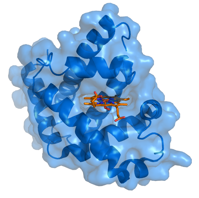 Cartoon representation of Myoglobin (blue) with heme group (orange)